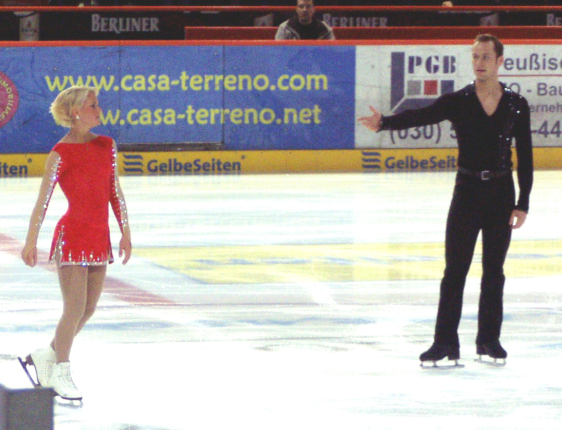 Rebecca Handke and Daniel Wende at their free program at the German championships 2006 in Berlin.